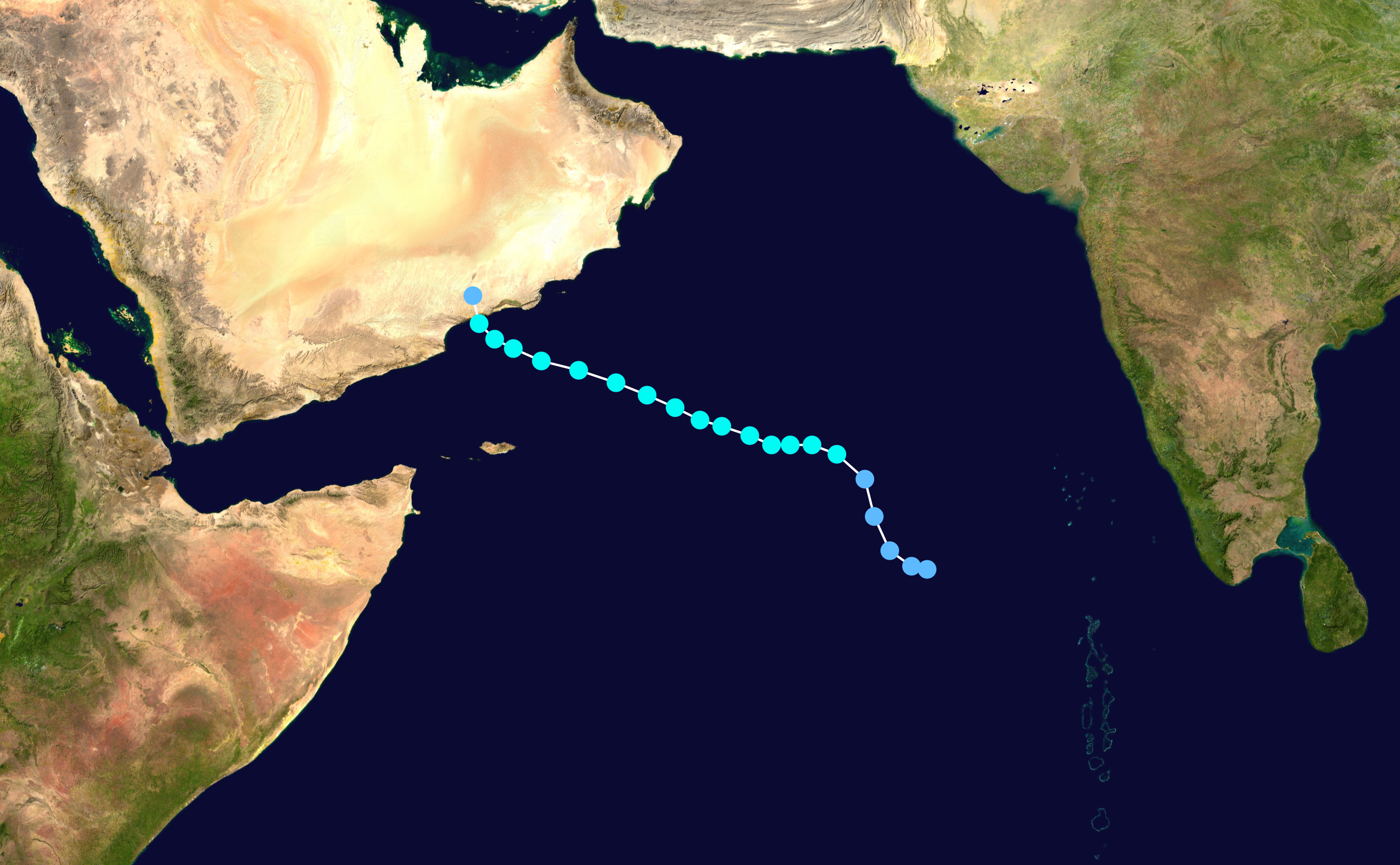 Cyclone 01A 2002 track. Uses the color scheme from the Saffir-Simpson Hurricane Scale.